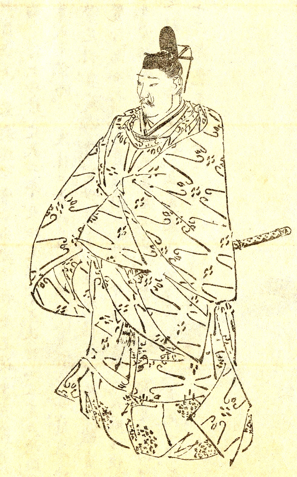 Nijo Moromoto(二条師基) was a court noble and politician of Japan in the latter period of Kamakura era.This picture was drawn by Kikuchi Yosai（菊池容斎） who was a painter in Japan.